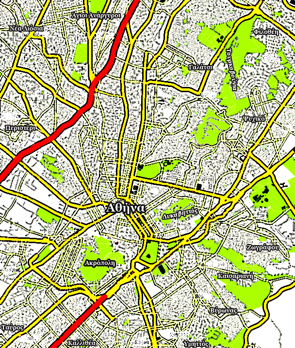 Map of Athens